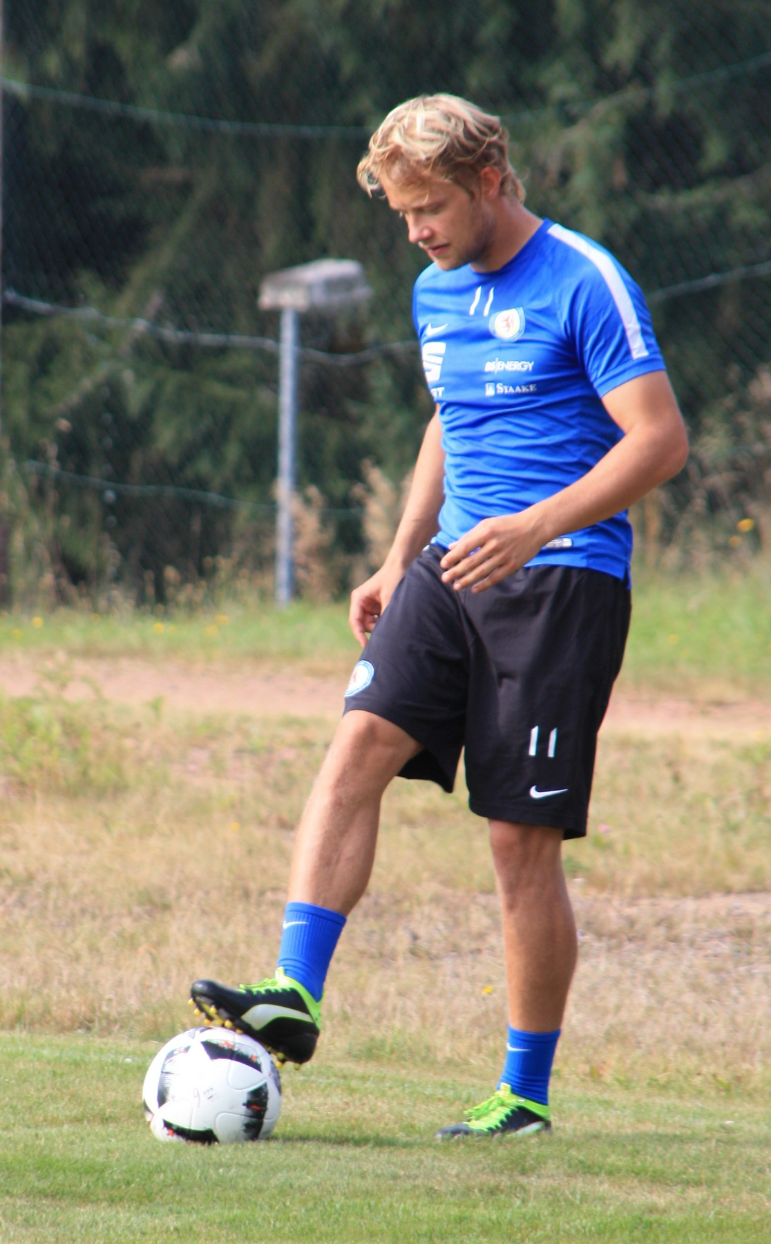 Jan Hochscheidt on Sep 9, 2016 in Breitenbrunn/Erzgeb.